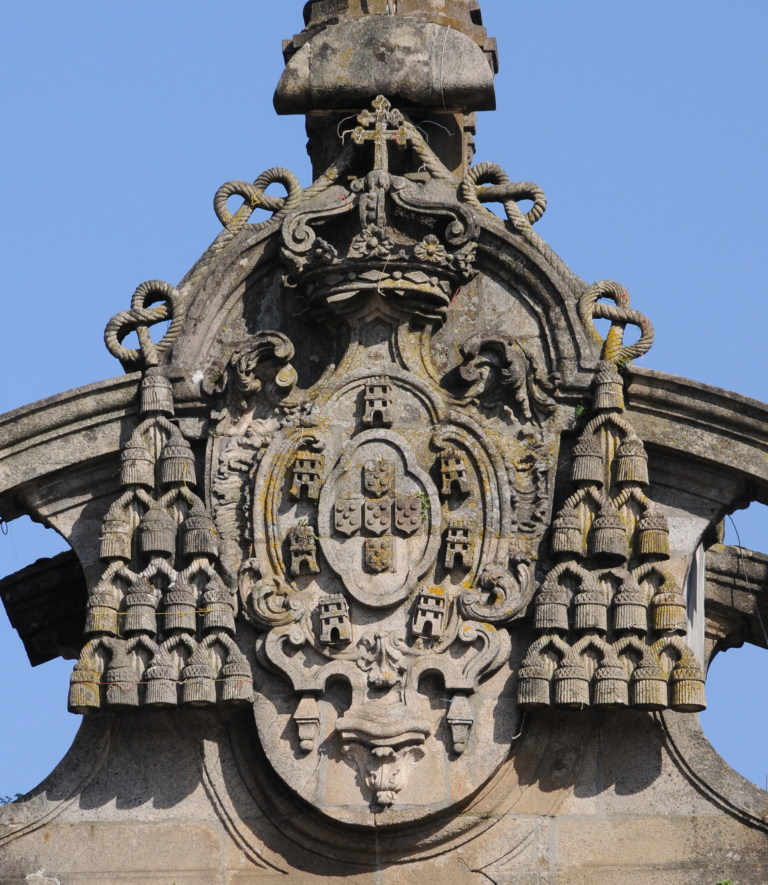 Coats of arms of Gaspar de Bragança archbishop of Braga, in Arco da Porta Nova, Braga, Portugal.